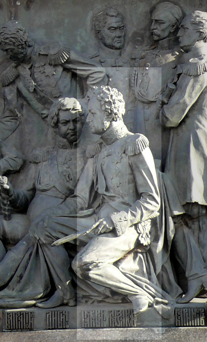 Ivan Paskevich on the Monument «Millennium of Russia» in Veliky Novgorod